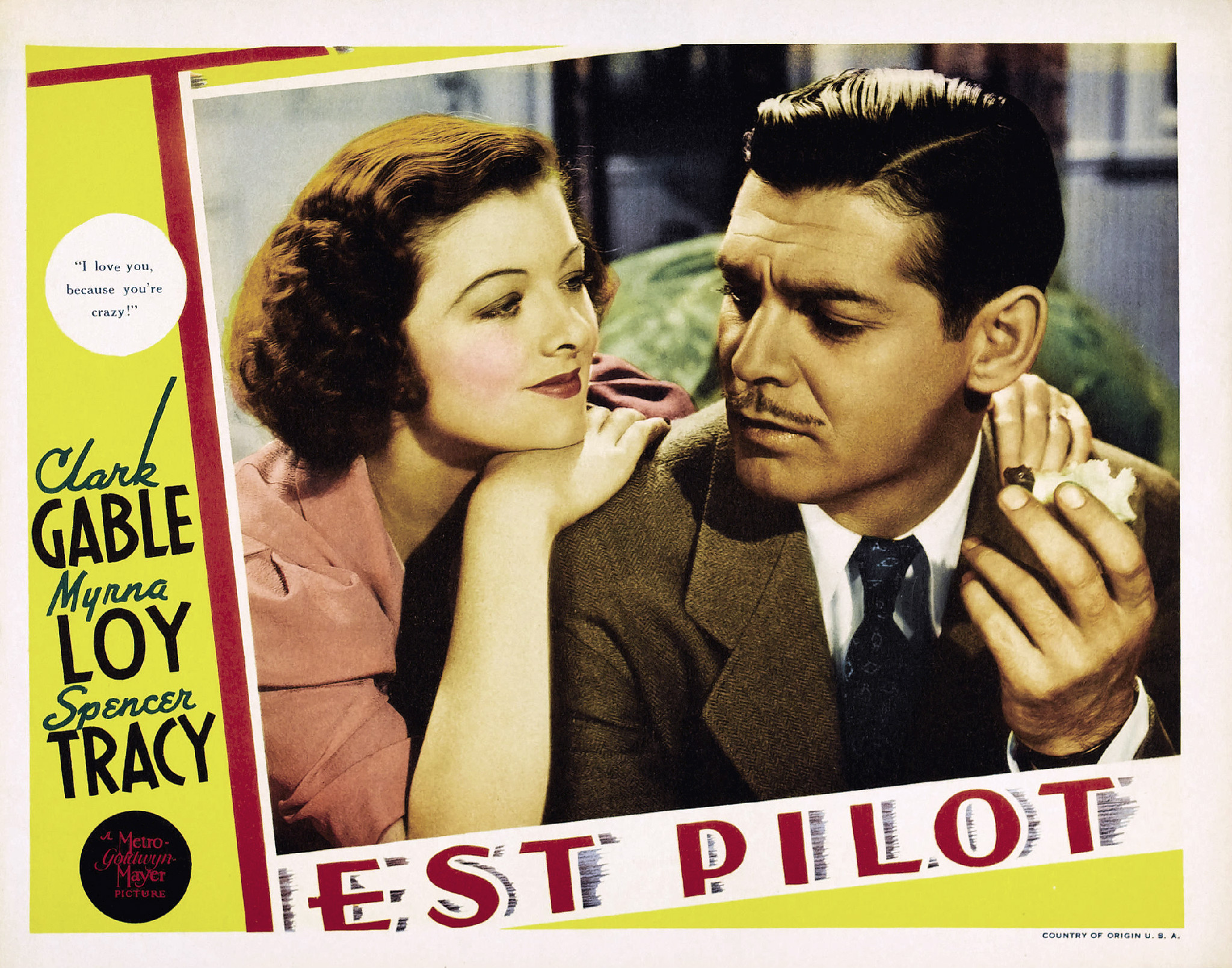 Lobby card from the 1938 film Test Pilot with Clark Gable and Myrna Loy.